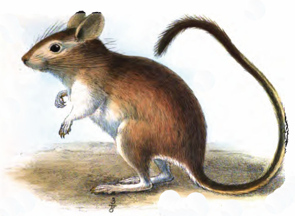 Gerbillus persicus ( syn. Meriones persicus)